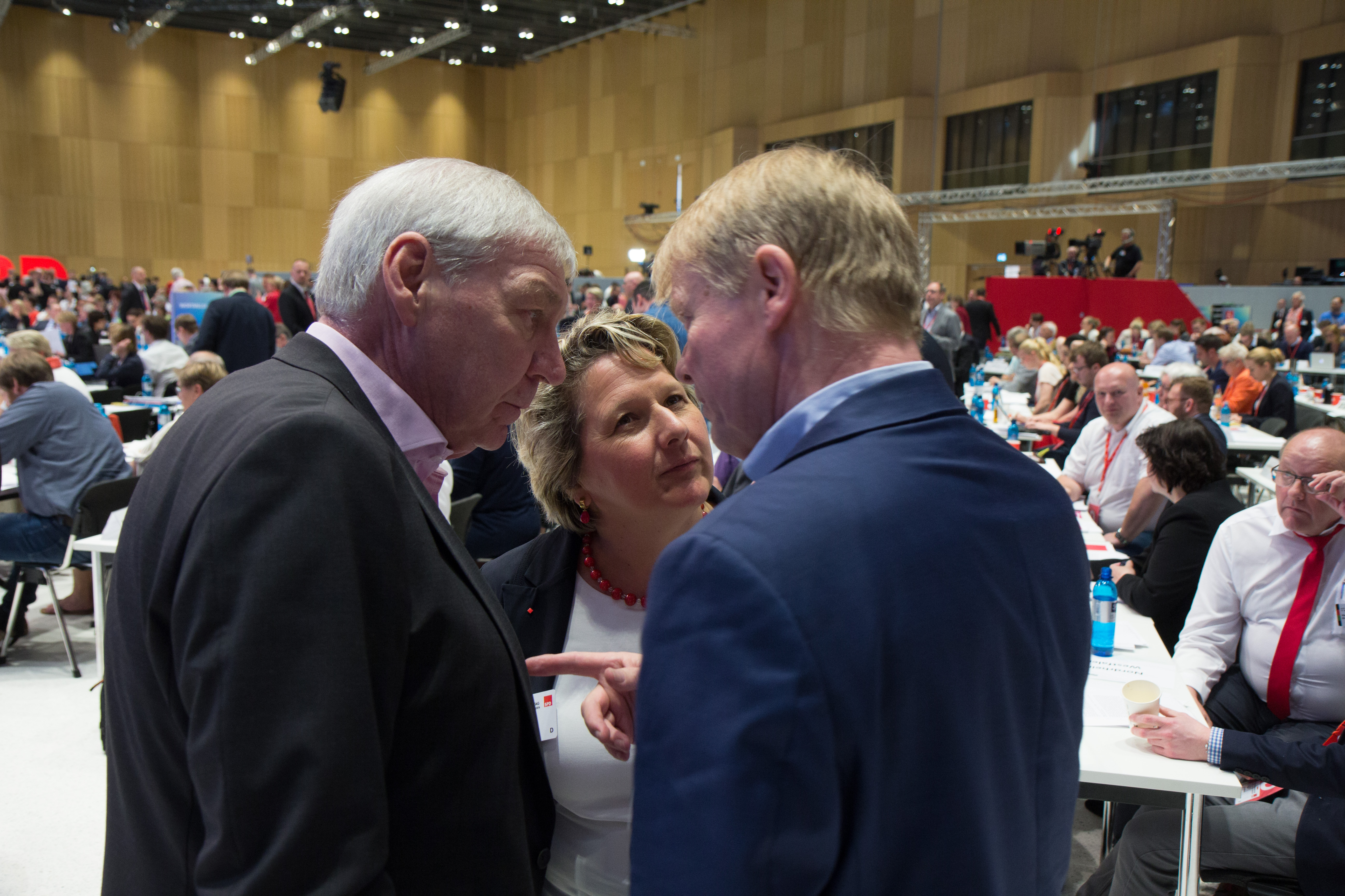 Michael Sommer, Svenja Schulze and Reiner Hoffmann in conversation at the party congress of the Social Democratic Party of Germany in Wiesbaden 2018